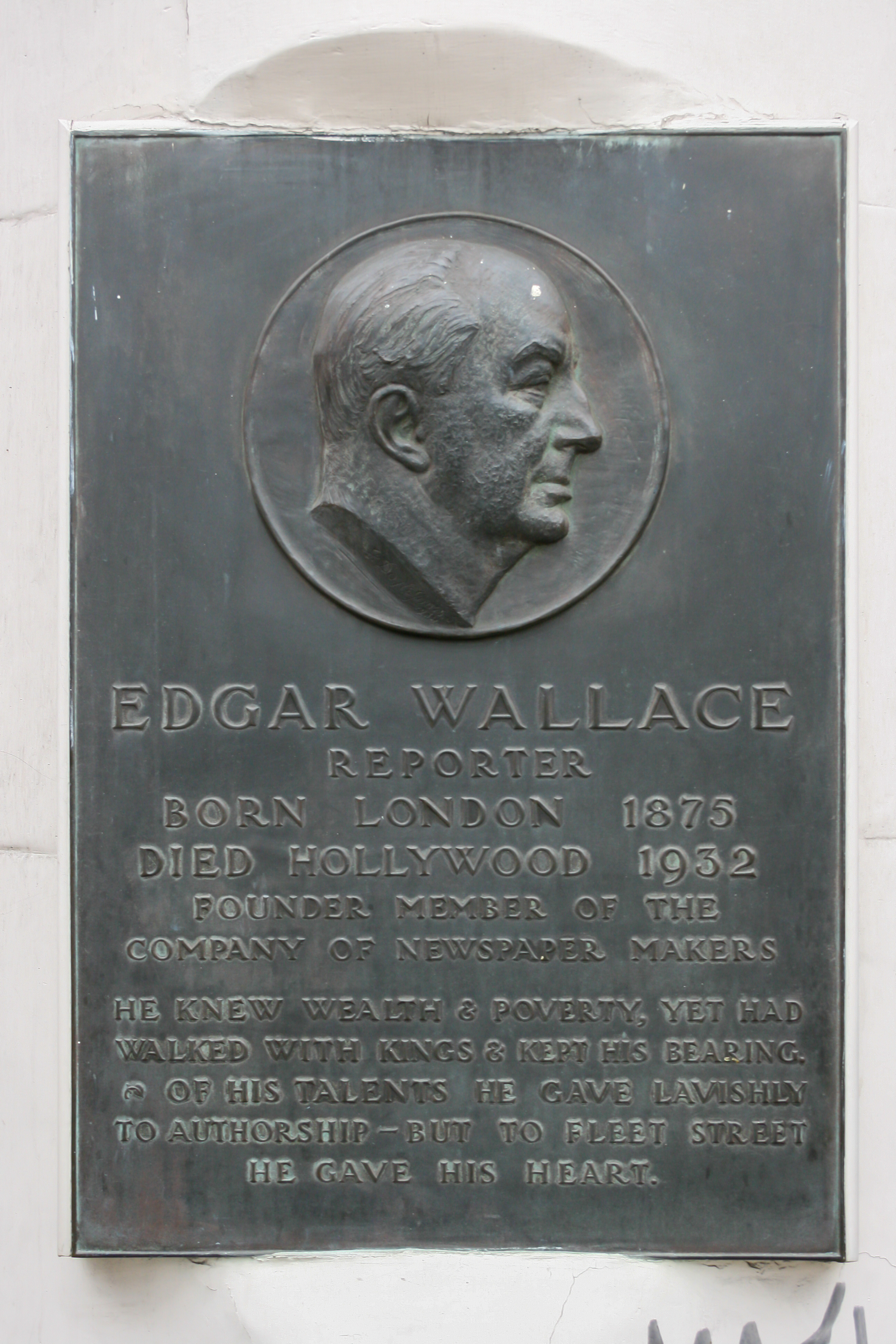 Edgar Wallace plaque, near 107 Fleet Street.